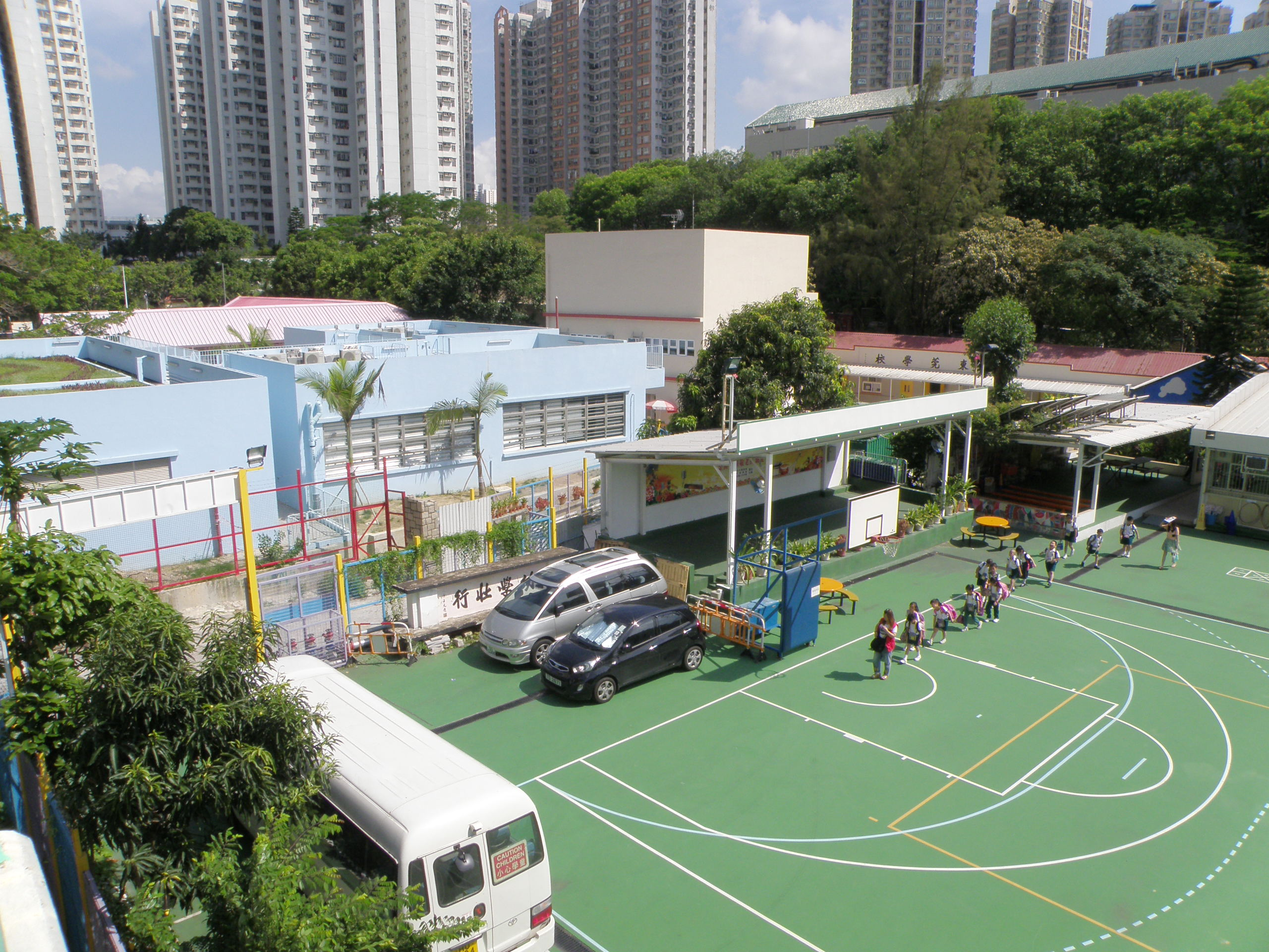 Tung Koon School in Sheung Shui, Hong Kong.